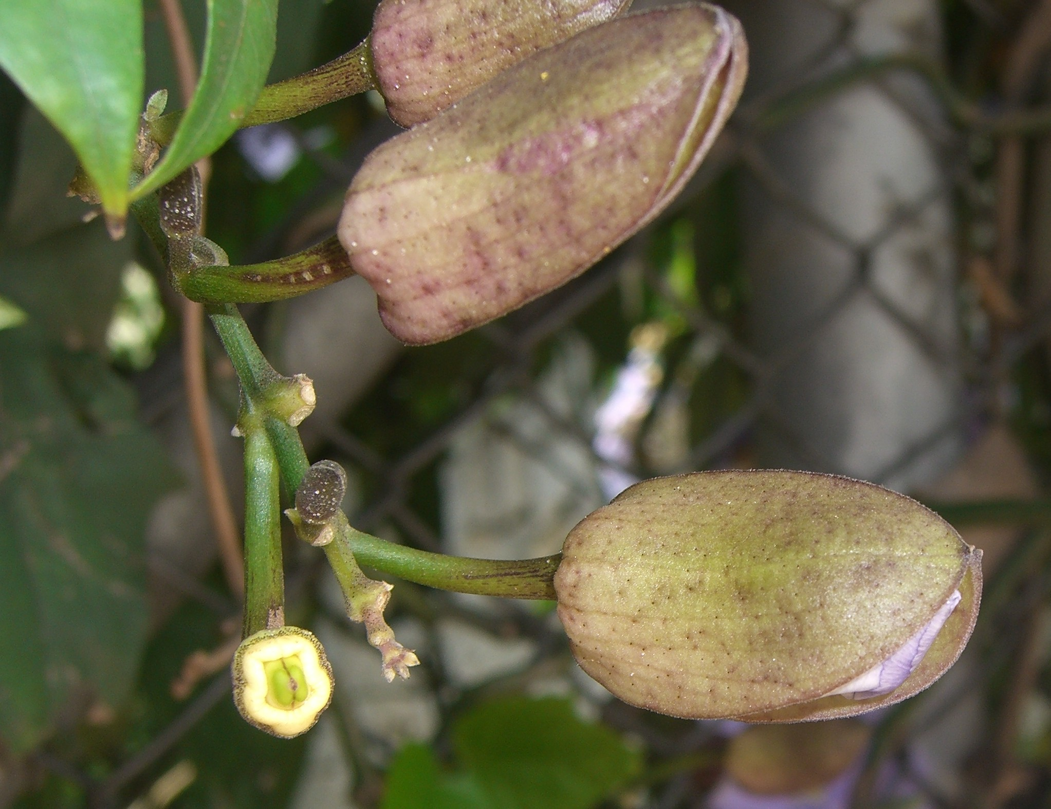 Please report references to .